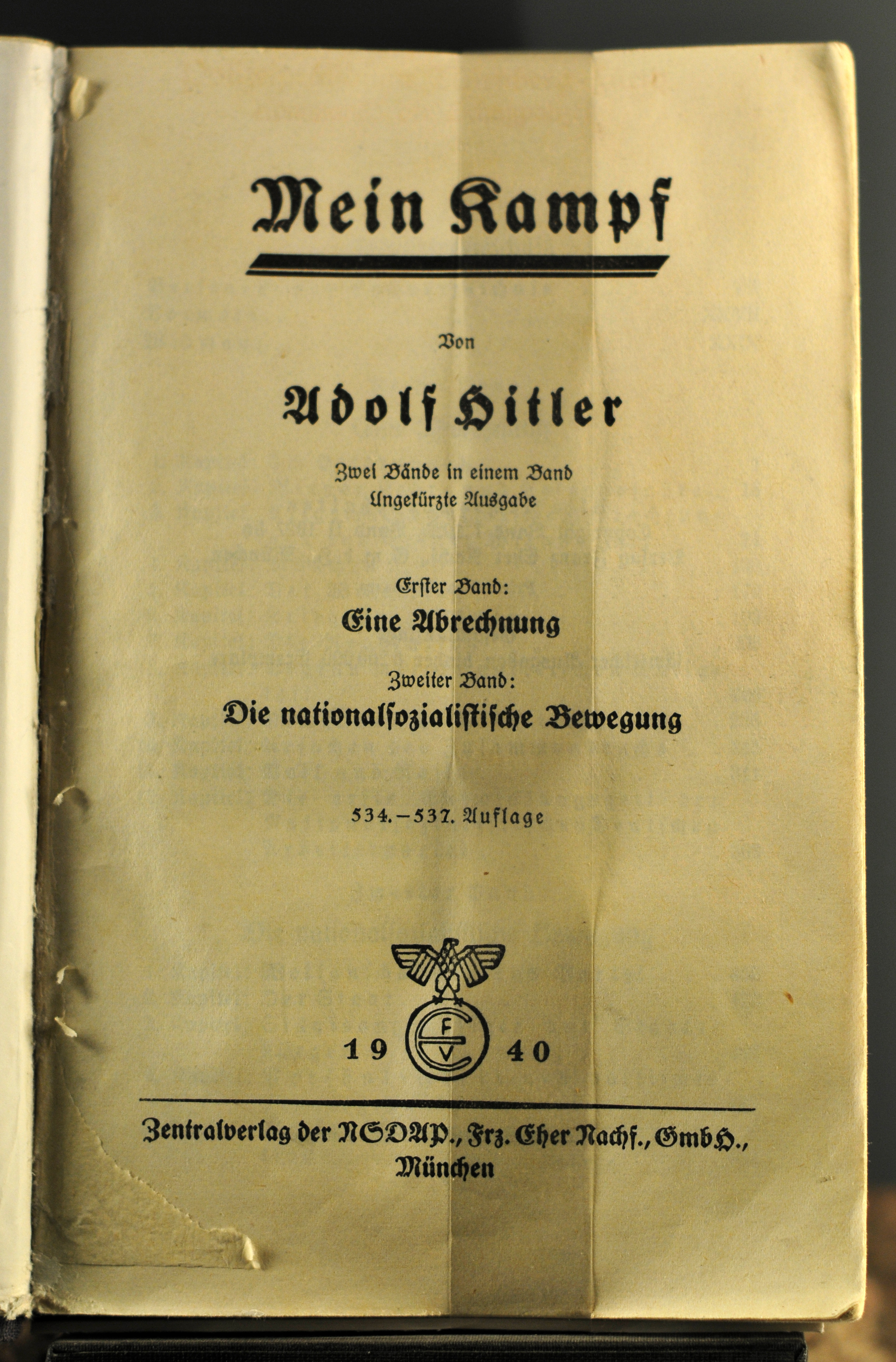 Kongreßhalle Nuremberg at the Reichsparteitagsgelände; Documents The making of this work was supported by Wikimedia Austria. For other files made with the support of Wikimedia Austria, please see the category Supported by Wikimedia Österreich. This file is ineligible for copyright and therefore in the public domain because it consists entirely of information that is common property and contains no original authorship.